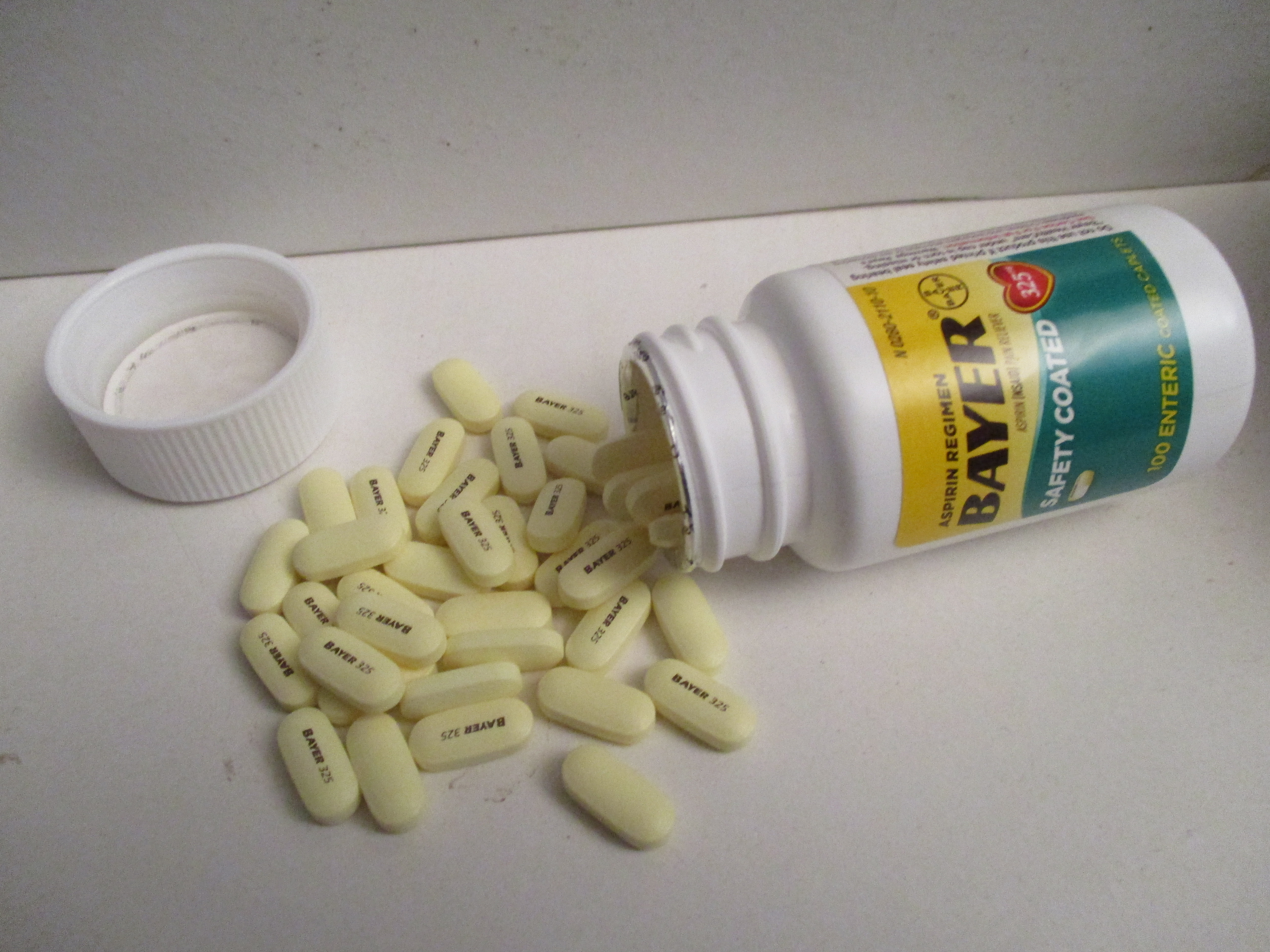 Shows pills with enteric coating. Bought 2018